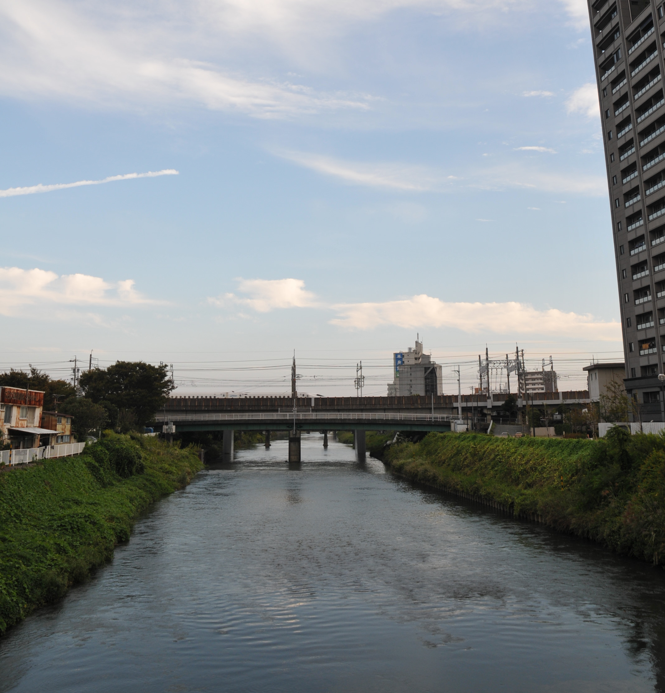 Magome River, Hamamatsu, Shizuoka